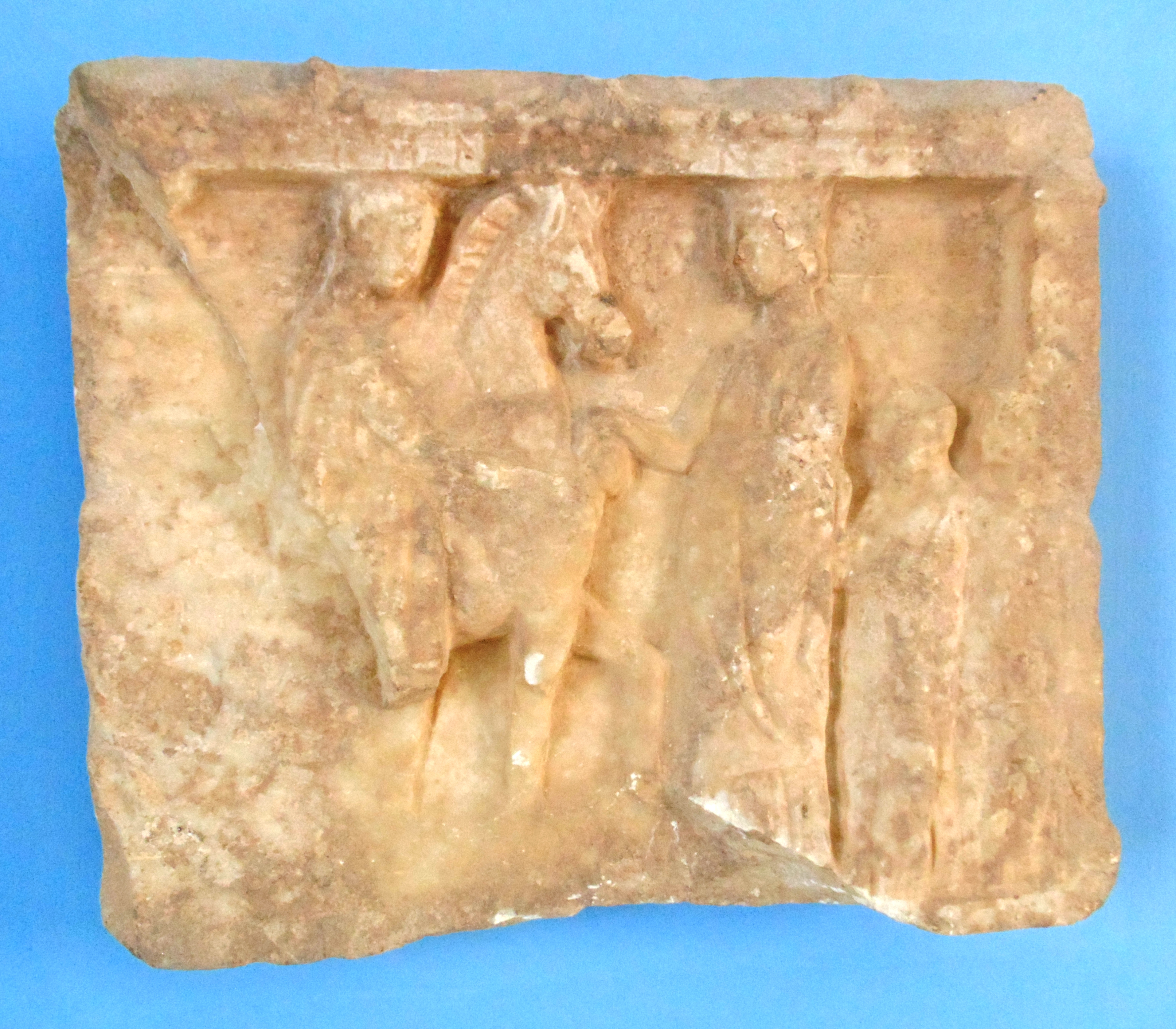 Collection of Archaeological Museum of Megara